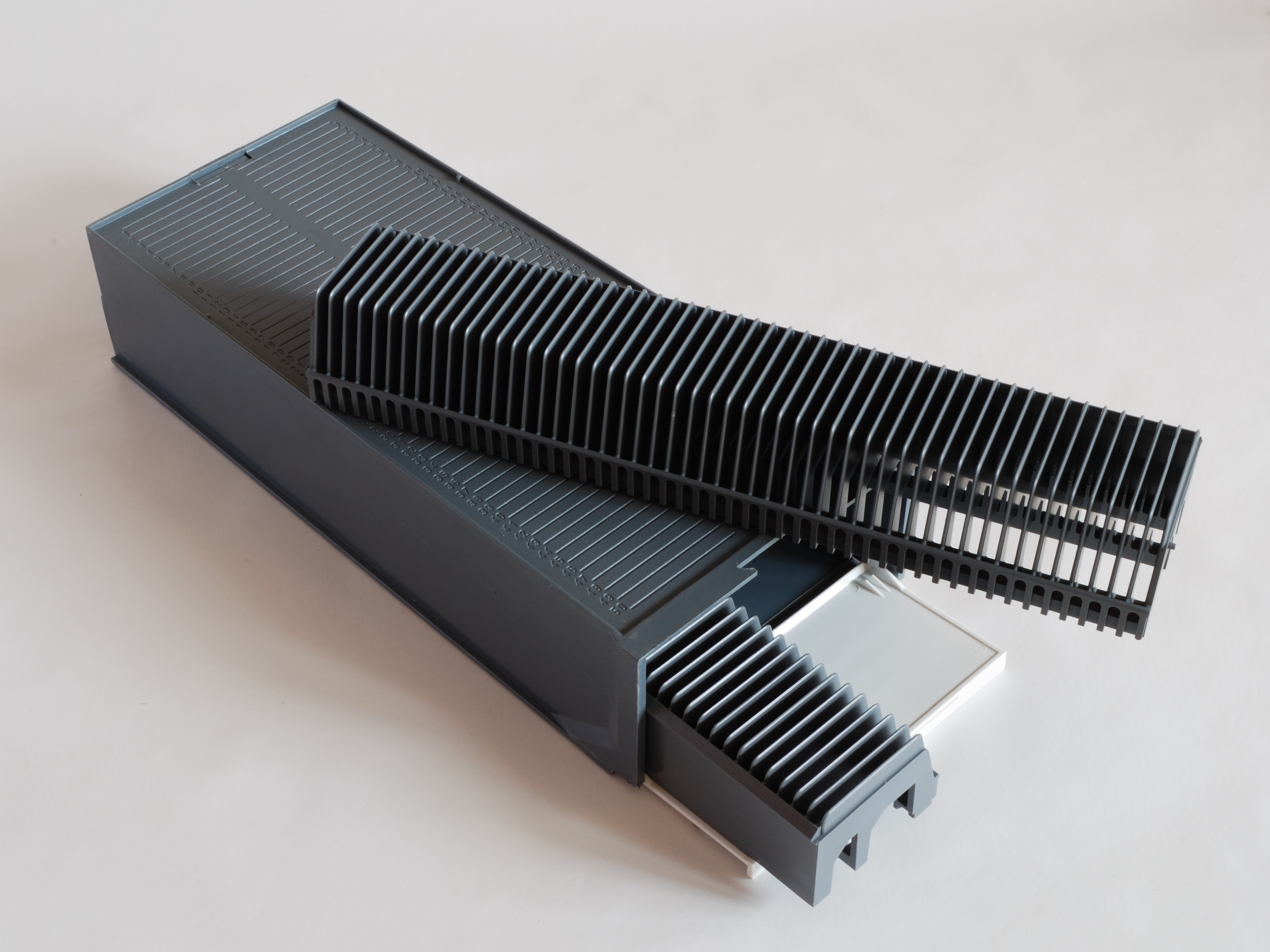 Slide tray for 50 slides, Box for 2 trays.